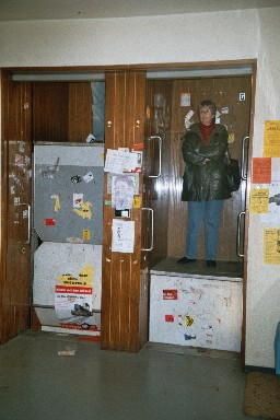 A paternoster at the University of Vienna, NIG (Neues Institutsgebäude), late 1950s, still in operation. Photo by KF, March 2004.